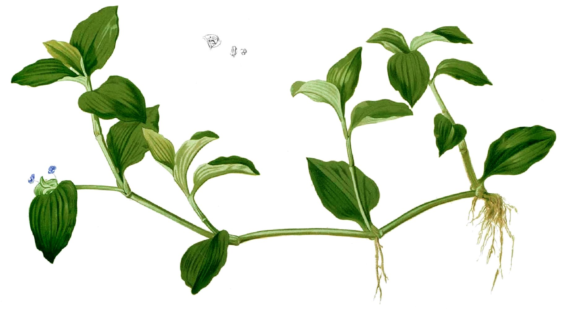 Plate from book